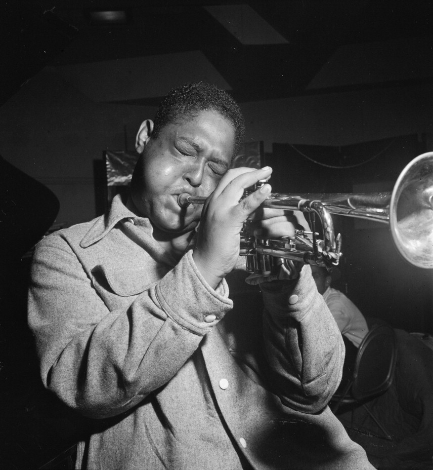 Portrait of Fats Navarro, New York, N.Y.